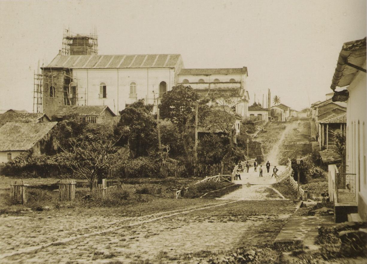 Manaus, province of Amazonas, 1865.